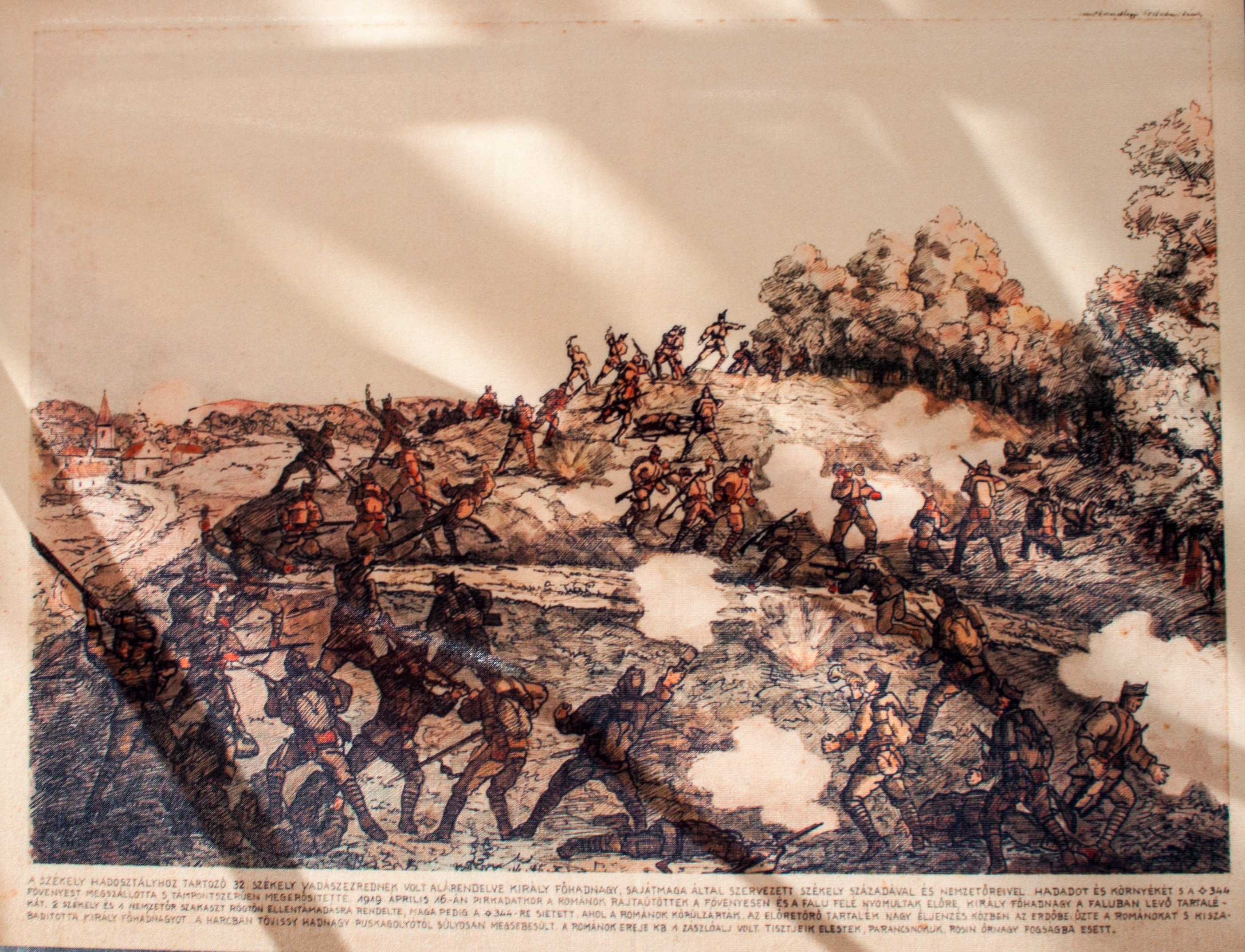 Drawing of Károly Kratochvil about the battle of the Székely Division at Hadad (Hodod, Satu Mare)